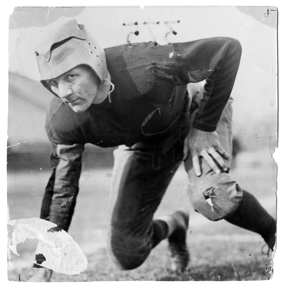 Everett "Strup" Strupper, Georgia Tech football player